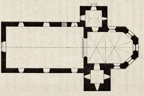 Ground plan of the St. Sebastian church in Bad Krozingen-Schlatt, Baden-Württemberg, Germany